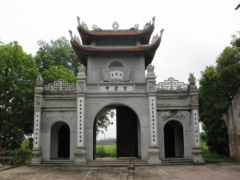 The gate of Dận Pagoda